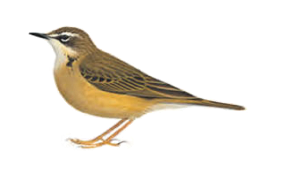 New Guinea Pipit Anthus gutturalis, illustration.